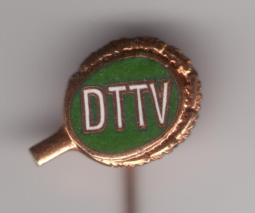 Ehrennadel DTTV 1965 in Bronze – Deutscher Tischtennis-Verband